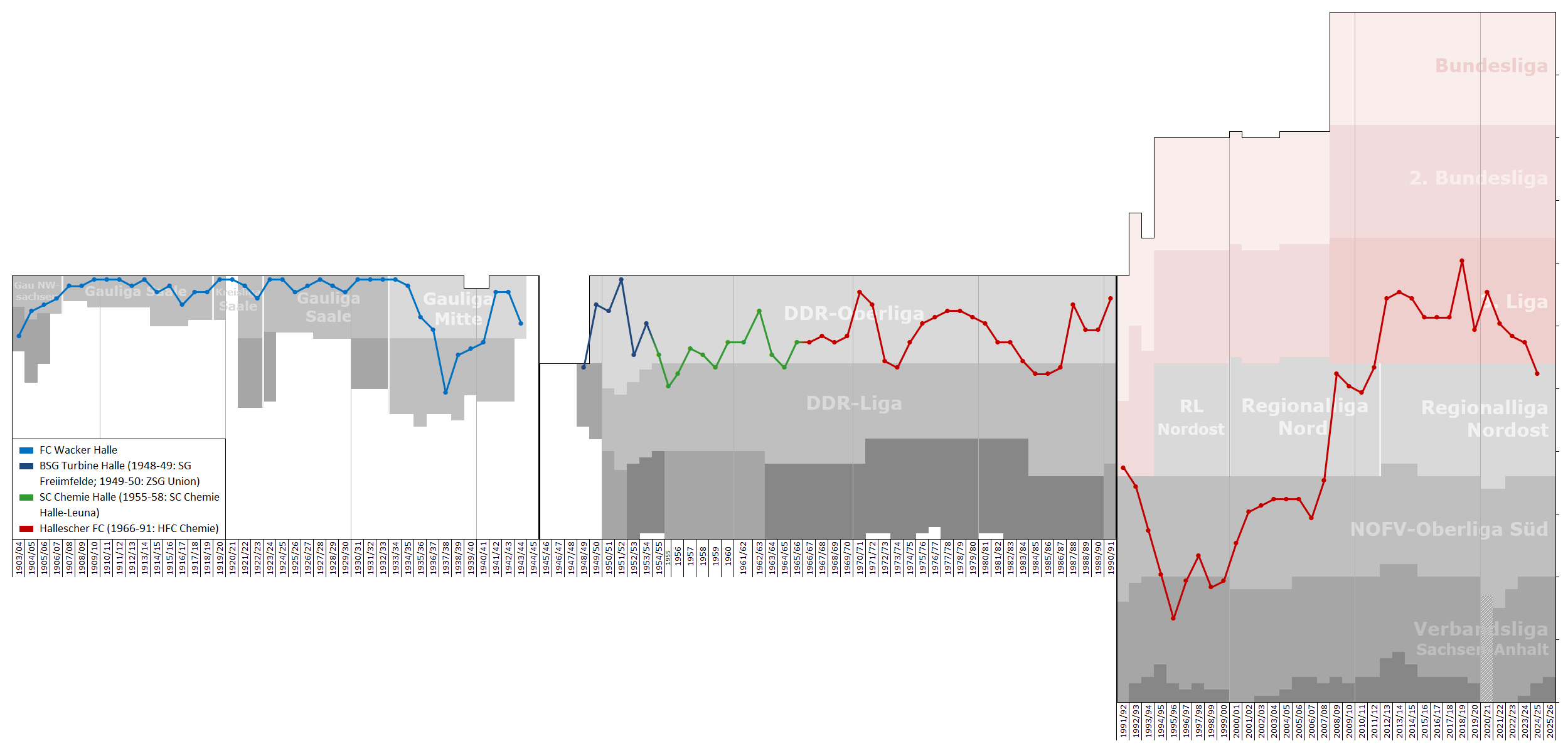 Chart of end-season table positions of Hallescher FC in the football league system of Germany and GDR. Data source: RSSSF, wikipedia, f-archiv.de, fussball.de